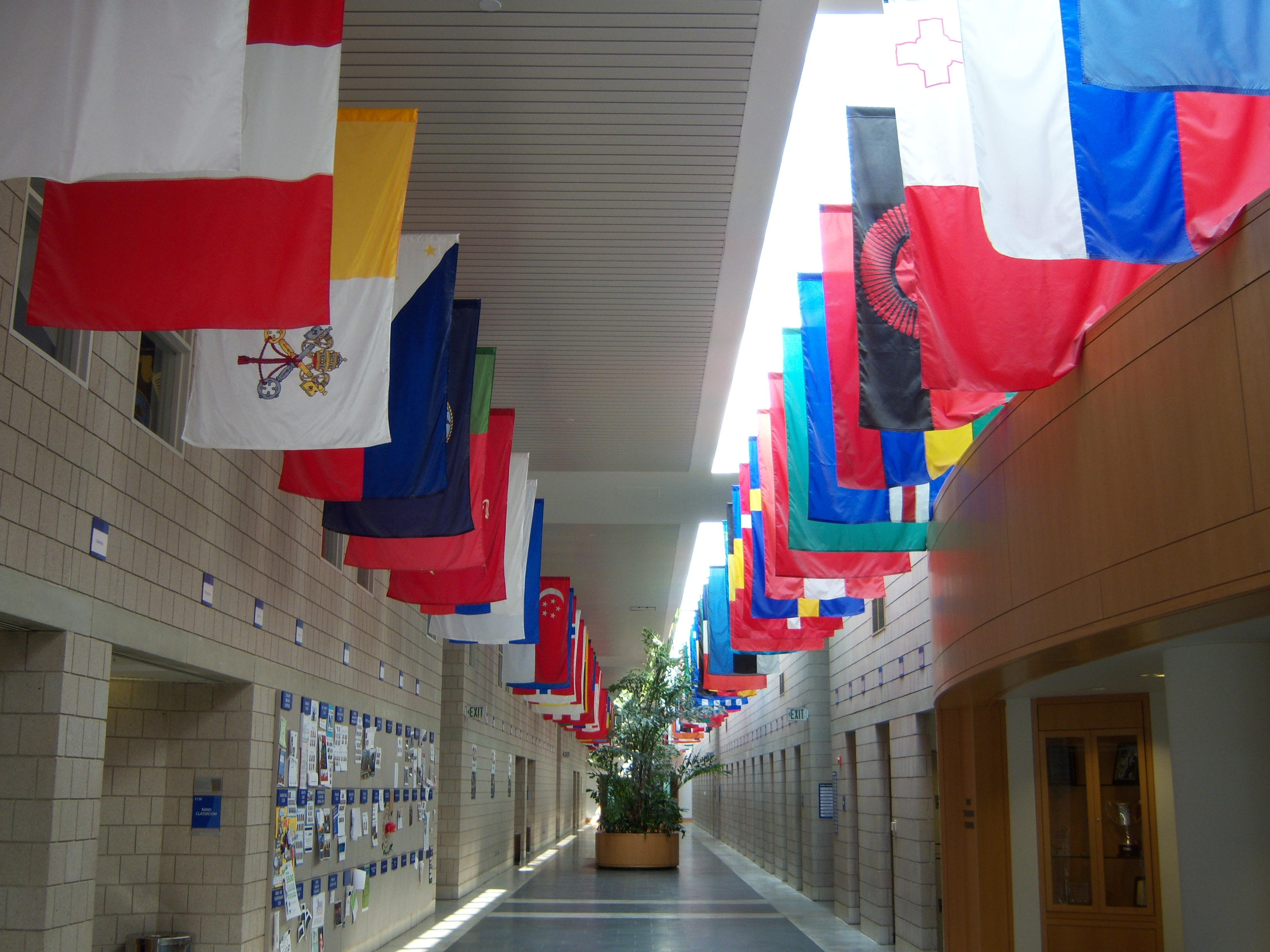 Fuqua School of Business - Keller Center East - Hall of Flags - Russian Flag